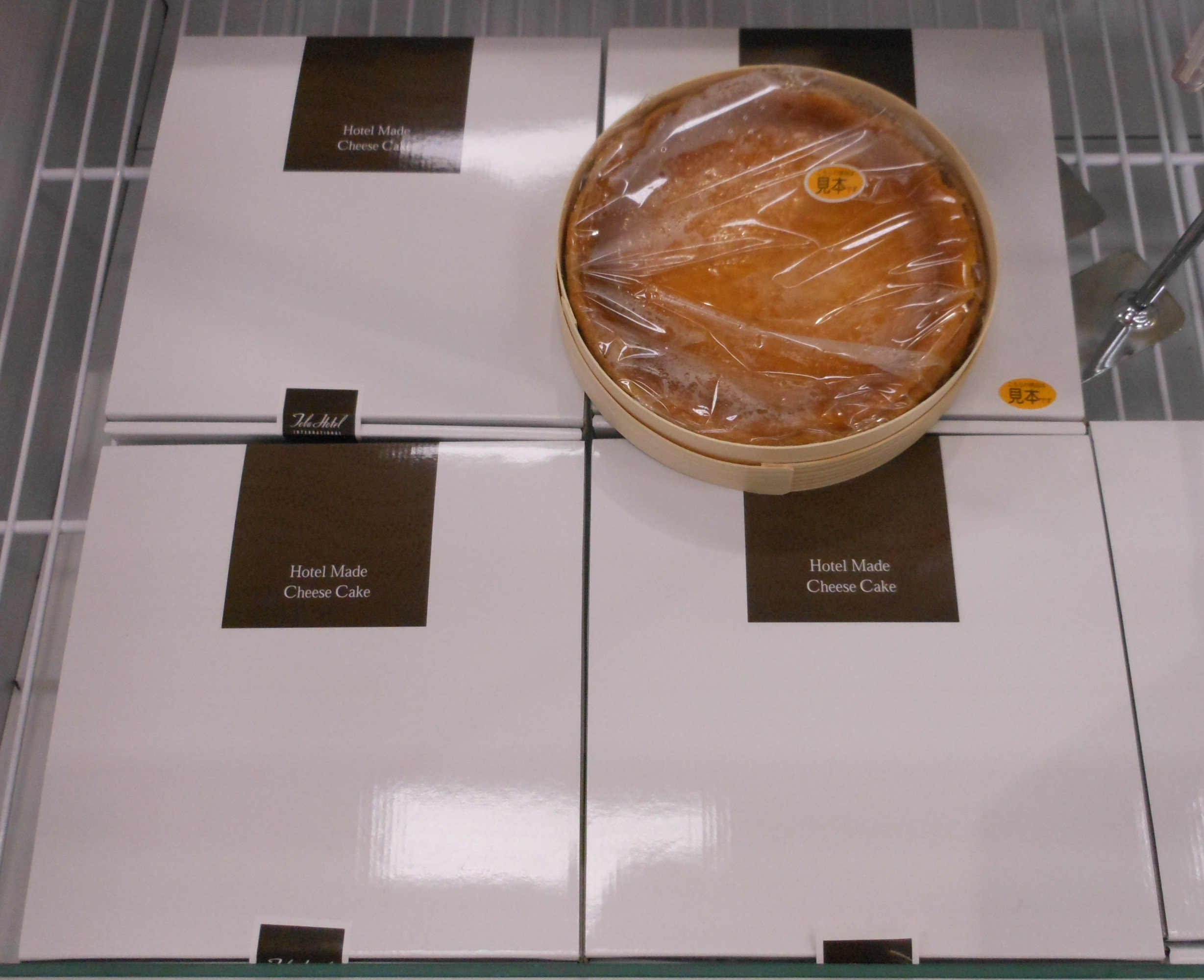 These are cheese cakes made by Toba Hotel International.